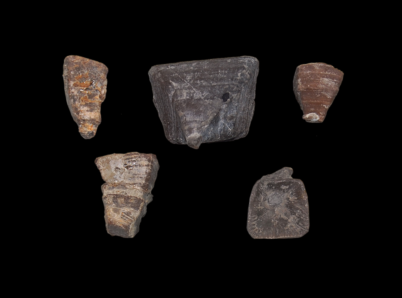 Silurian reef fauna UK Fossil in the Oxford University natural history museum